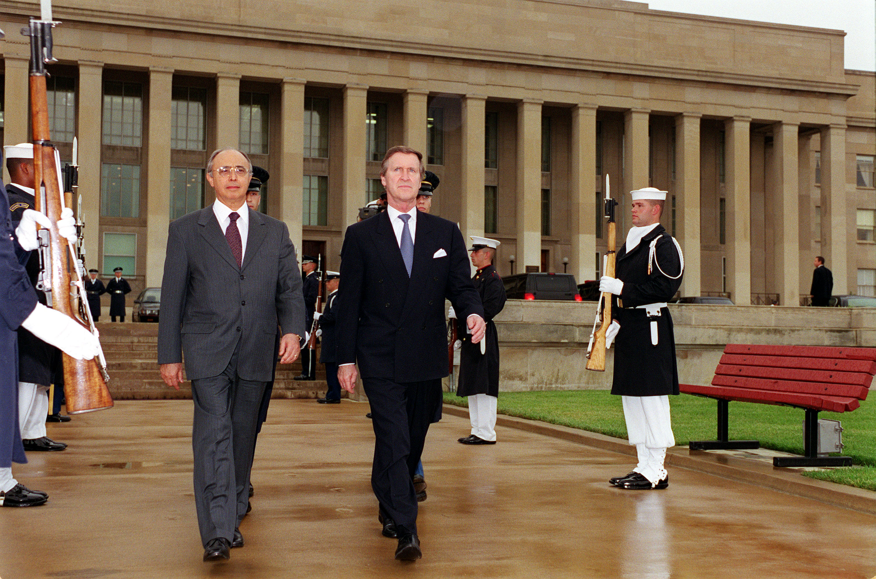 Brazilian Minister of Defense Geraldo Magela Quintao Alvares (left) is escorted by Secretary of Defense William S. Cohen (right) to the Pentagon River parade field for his welcoming ceremony on June 28, 2000. This is the first visit by the new position of Brazilian Minister of Defense.